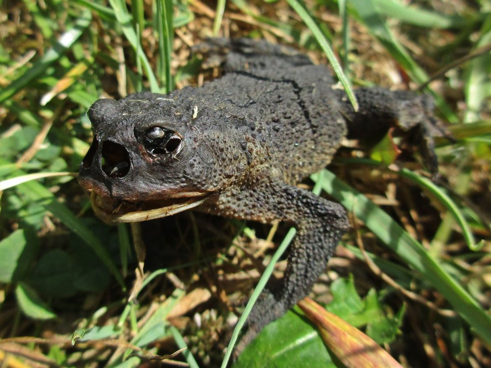 Lucilia bufonivora (Calliphoridae) - (larva), Elst (Gld) - De Park, the Netherlands